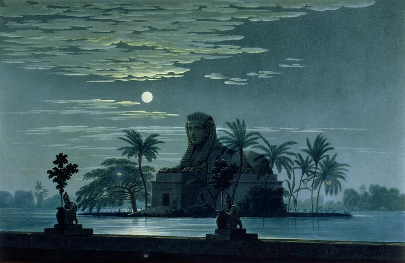 Stage design by Schinkel for an 1815 production of "The Magic Flute". Act 2, scene 3